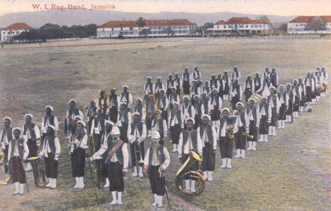 Regimental Band, Jamaica, 1907